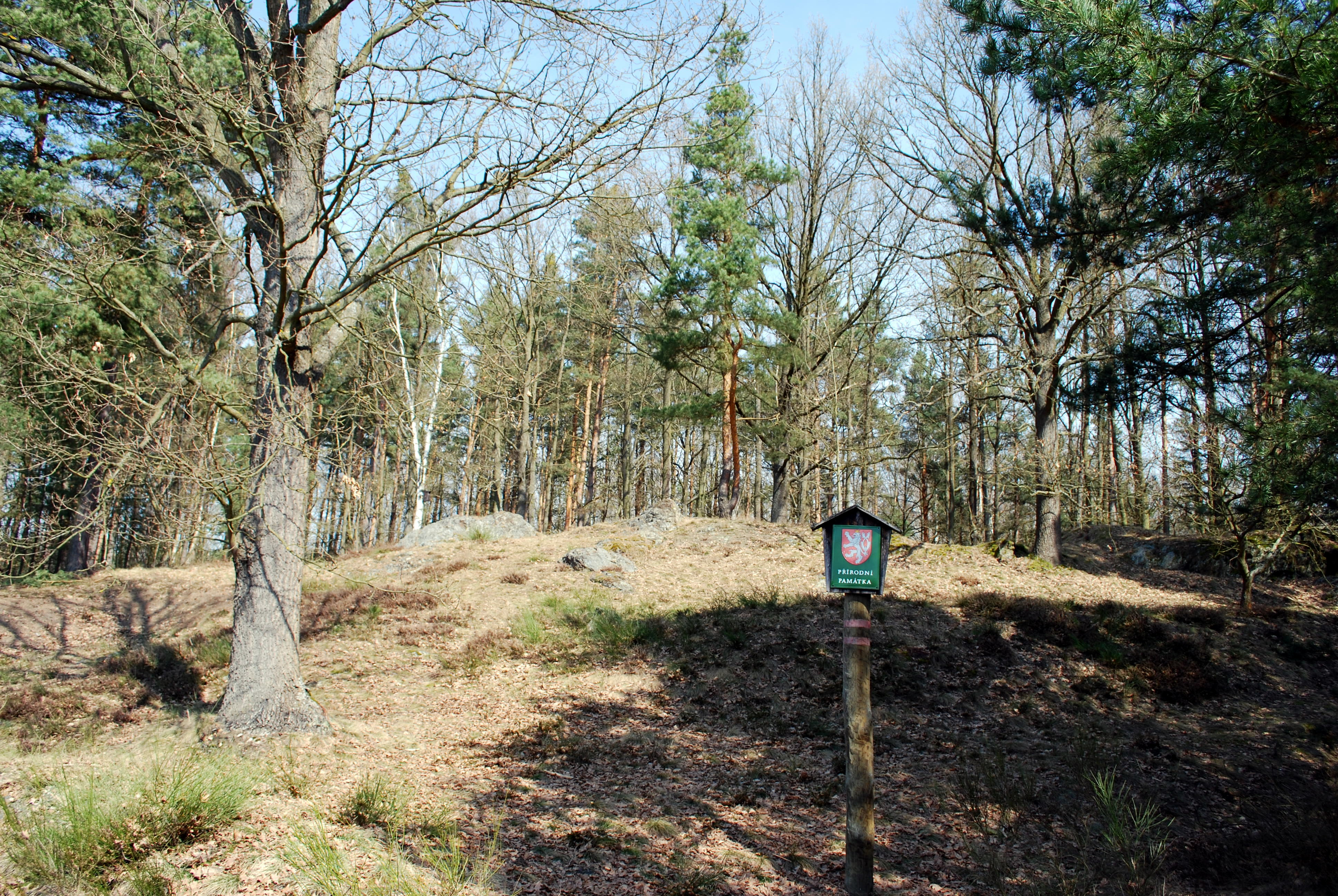 Natural monument near Vlkov, Tábor District, Czech republic. This photograph was taken within the scope of the 'Czech Municipalities Photographs' grant. - OpenStreetMap(Info)